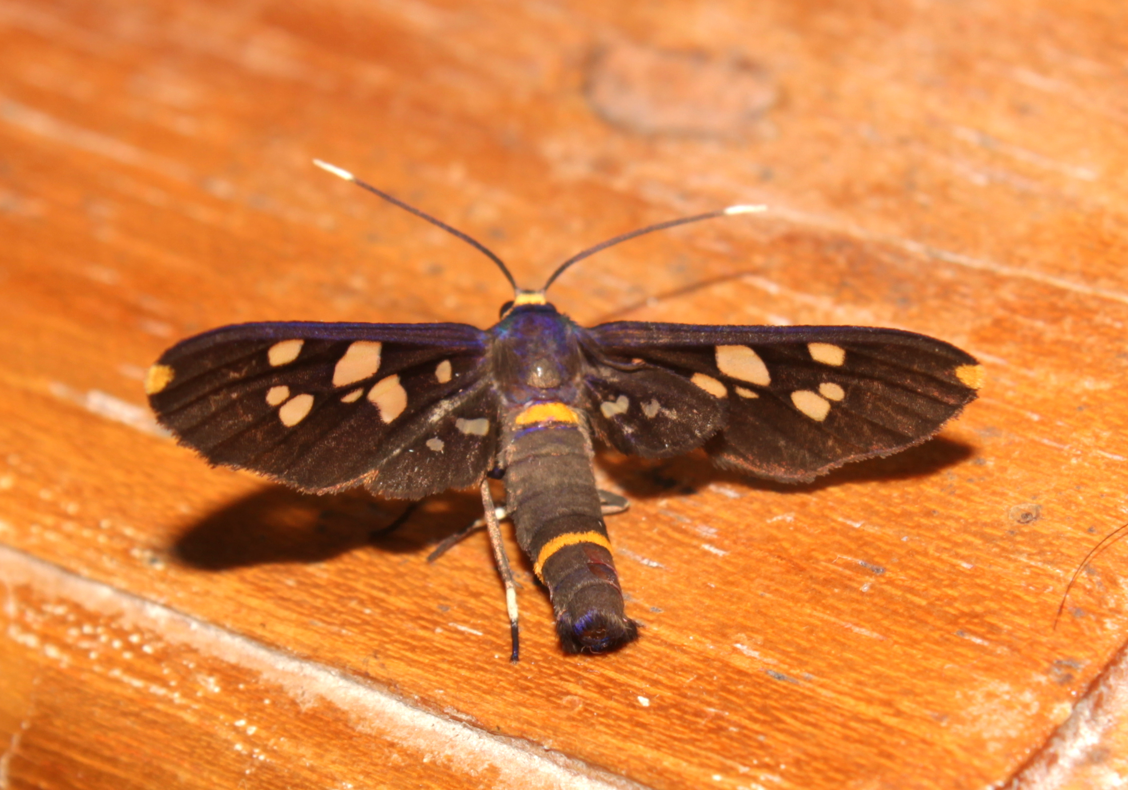 An Amata moth (Amata cyssea)[1]. Photographed near Thrippunithura.